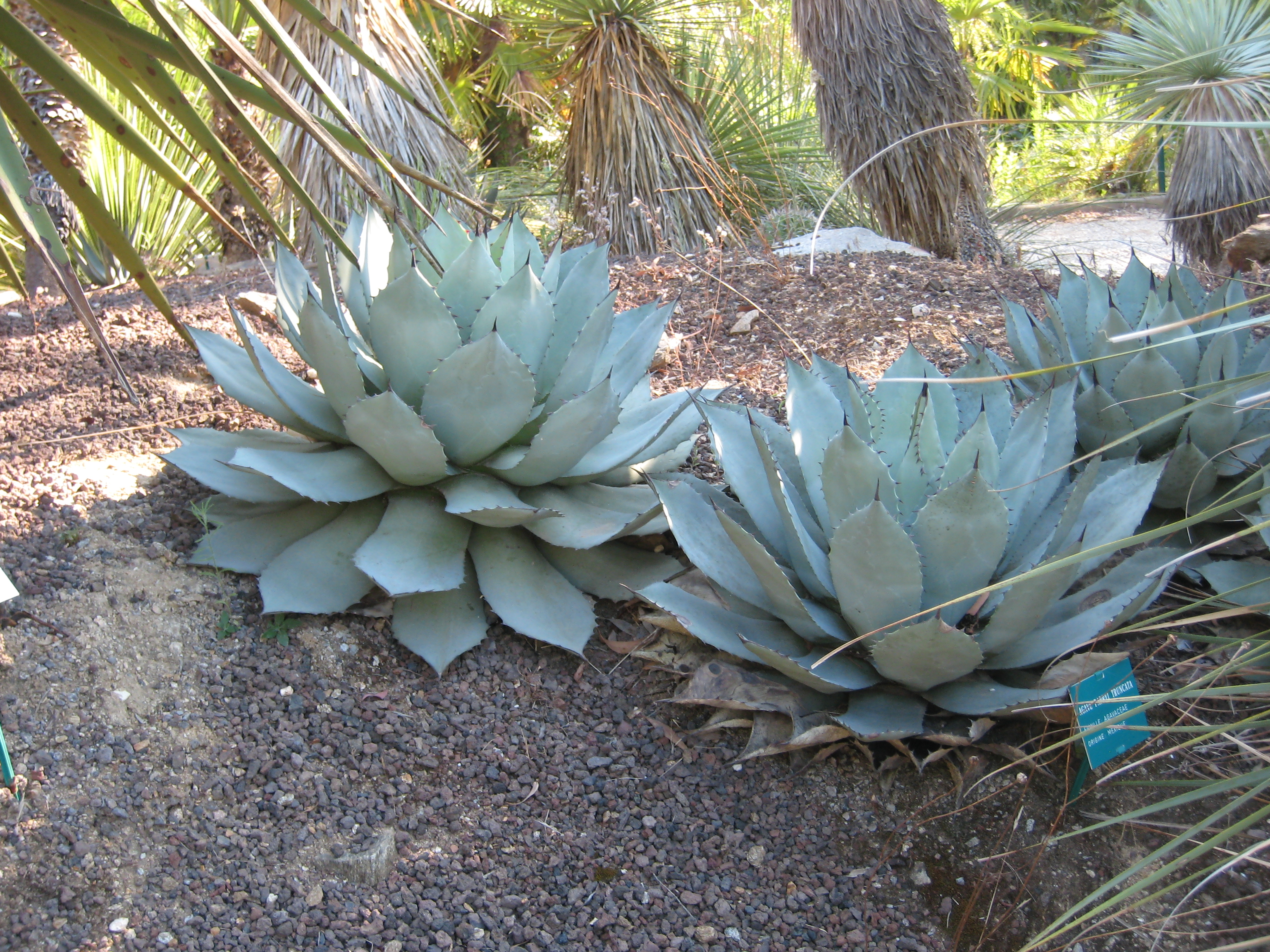 Agave parryi truncata in jardin d'oiseaux tropicaux